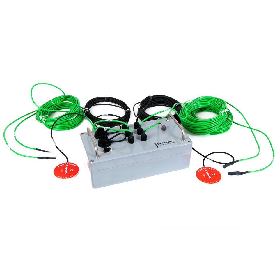 Thermal resistance measurement system (Hukseflux TRSYS01)